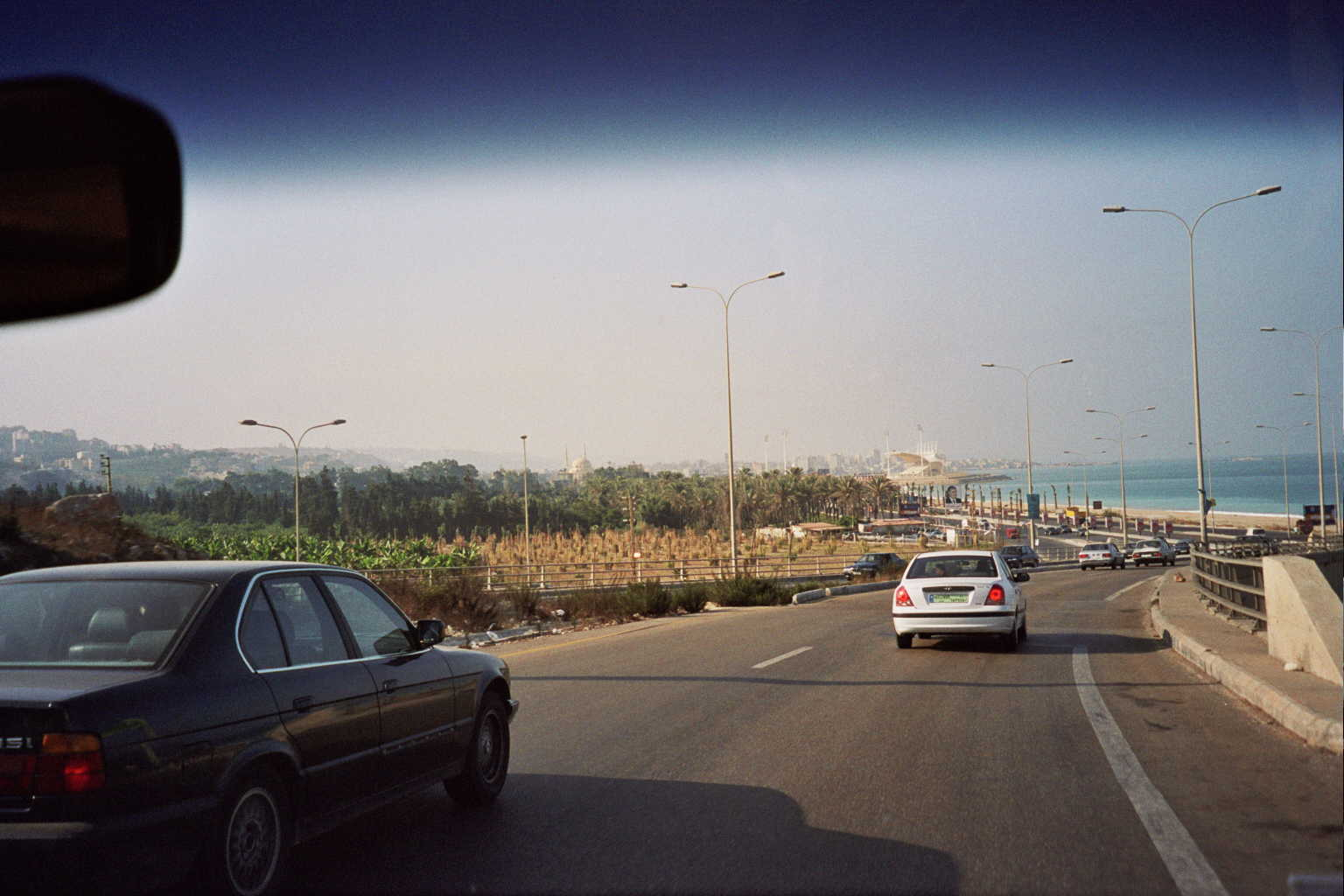 my second day in lebanon i took a day trip south to tyre and sidon. this is a random shot out the window on my way south, between beirut and sidon.